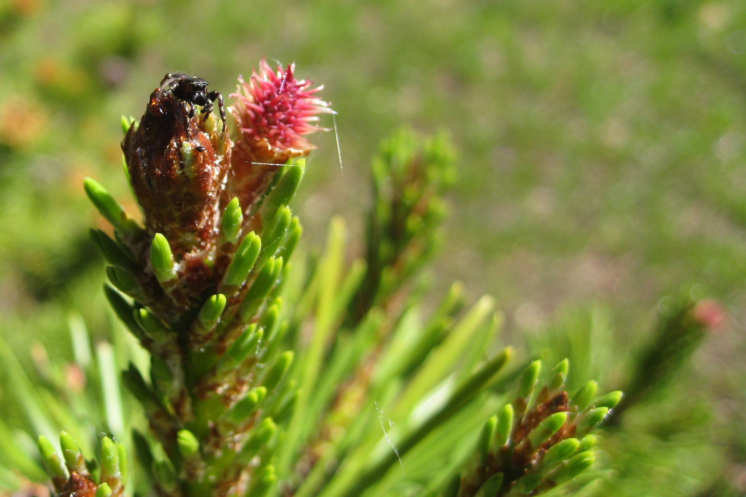 Pinus contorta subsp. latifolia (Lodgepole Pine) growing near the north end of Grand Park, Mount Rainier National Park, Washington.